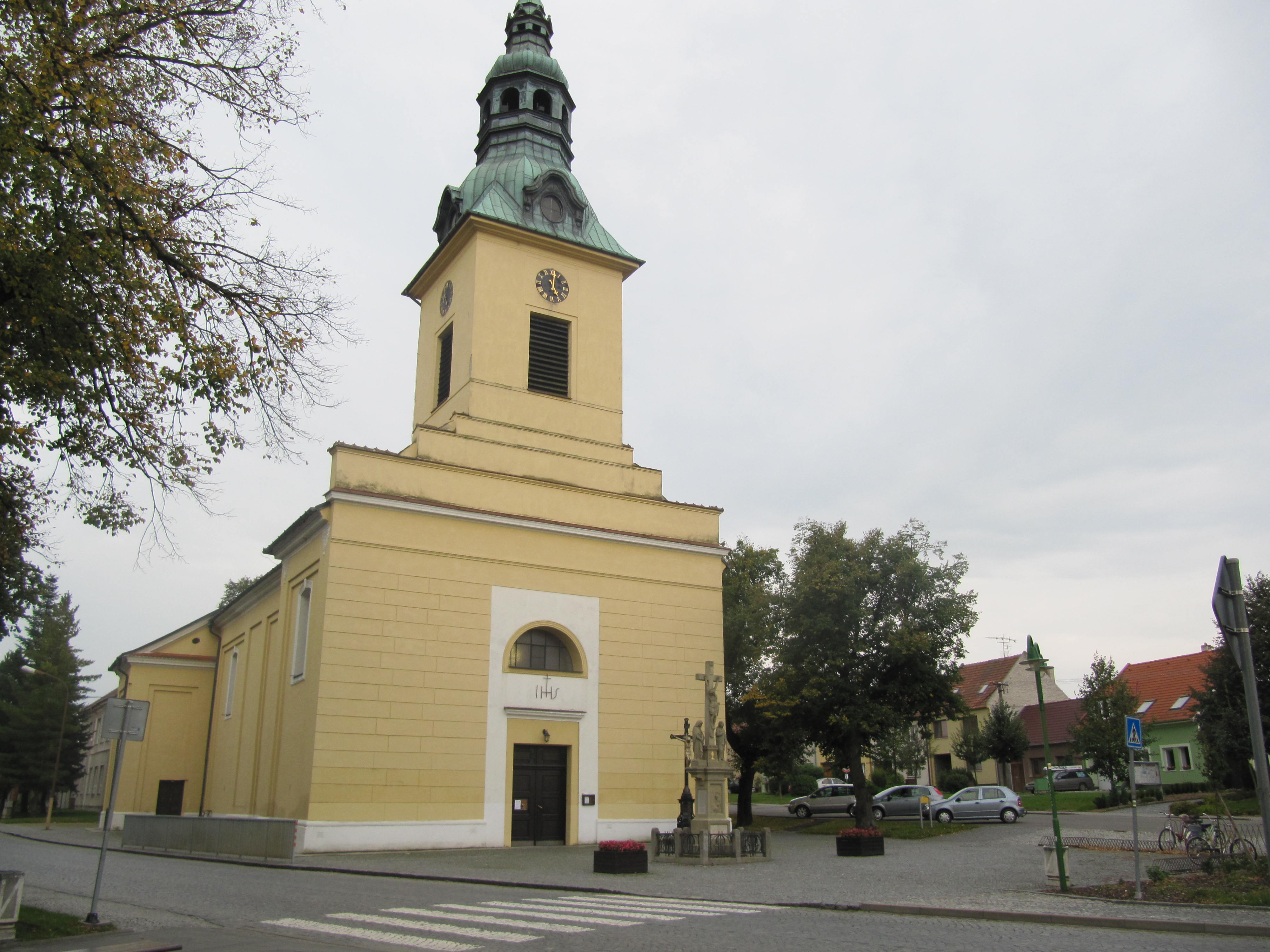 Nivnice in Uherské Hradiště District, Czech Republic.Square with church. This photograph was taken within the scope of the third year of the 'Czech Municipalities Photographs' grant.